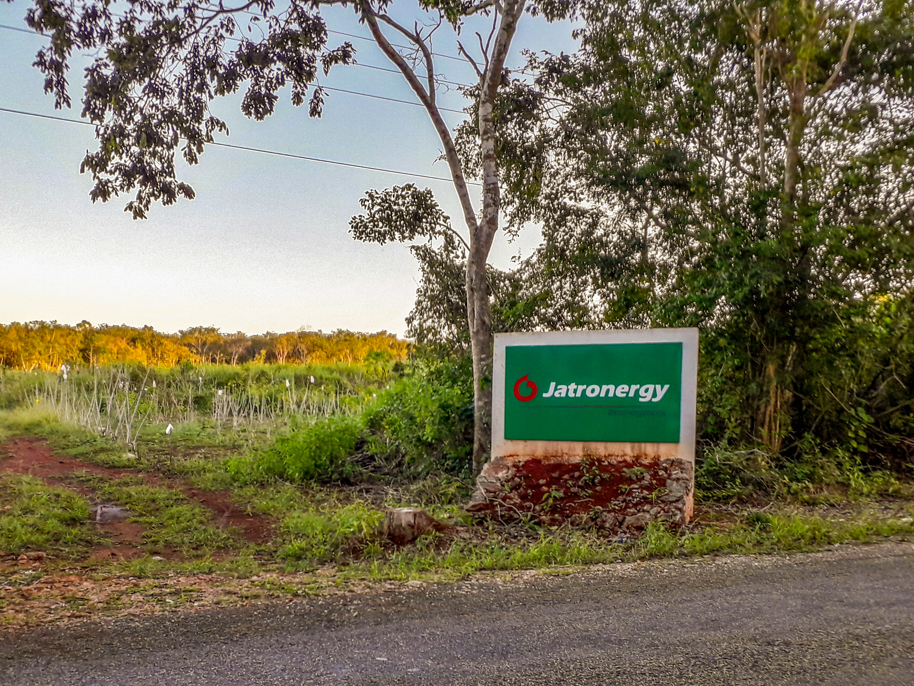 Jatropha platation in Espita,Yuatan.